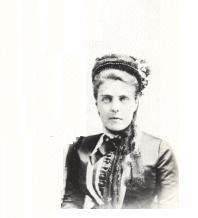 Anna "Bamie" Roosevelt Cowles, sister of Theodore Roosevelt Public Domain from URL Source URL